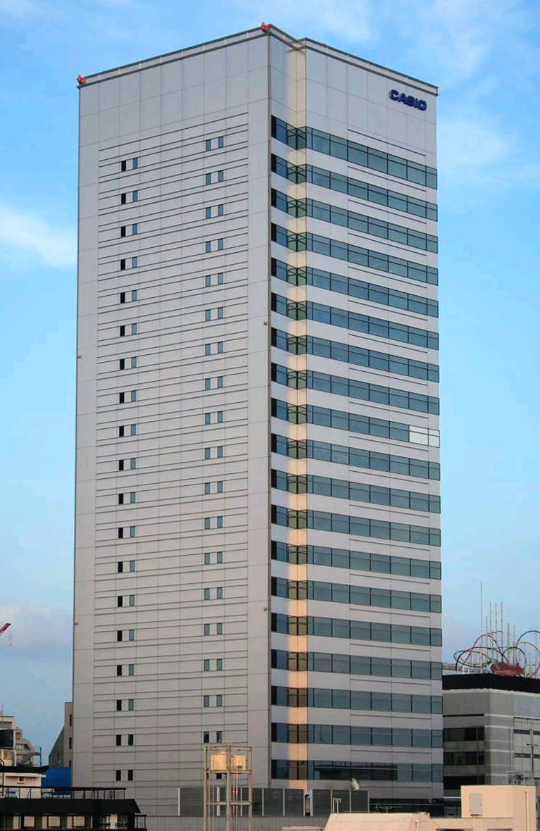 Casio's Shibuya, Tokyo, Japan office